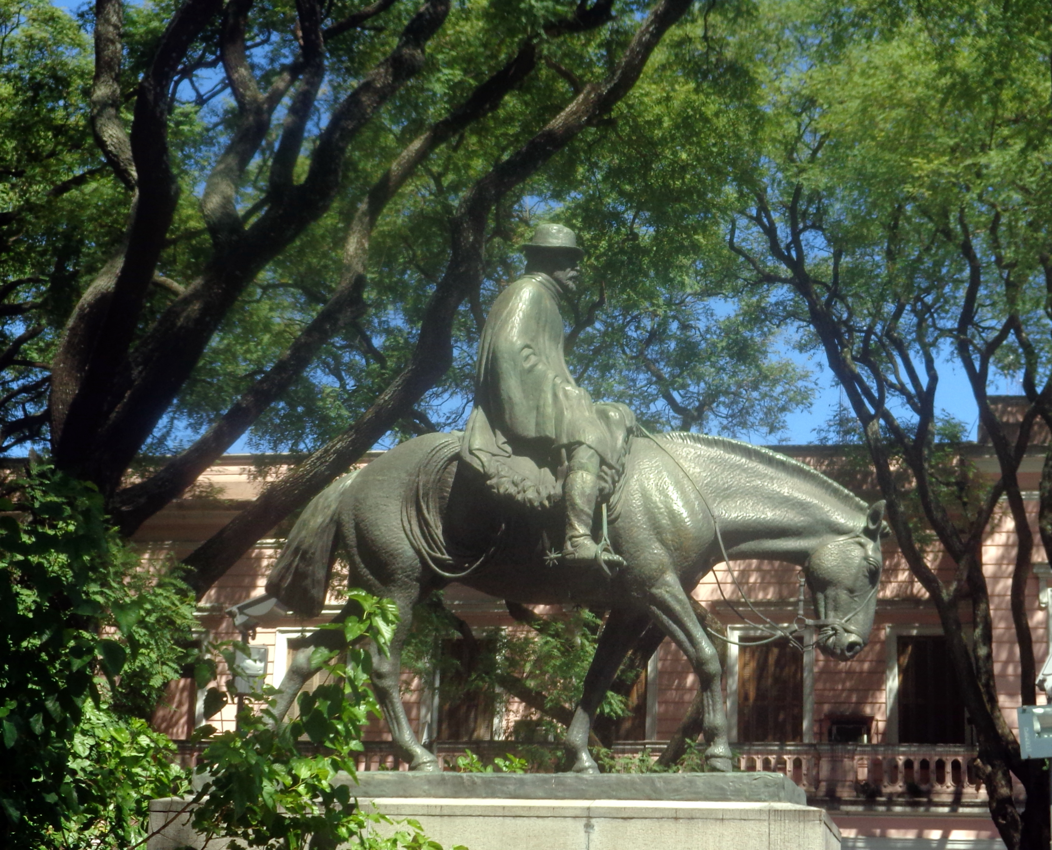 Statue "El Resero" of Emilio Jacinto Sarniguet (1932), in Mataderos, Buenos Aires city. Intersection of Lisandro de la Torre avenue and "de los Corrales" avenue. Photograph taken from NW to SE